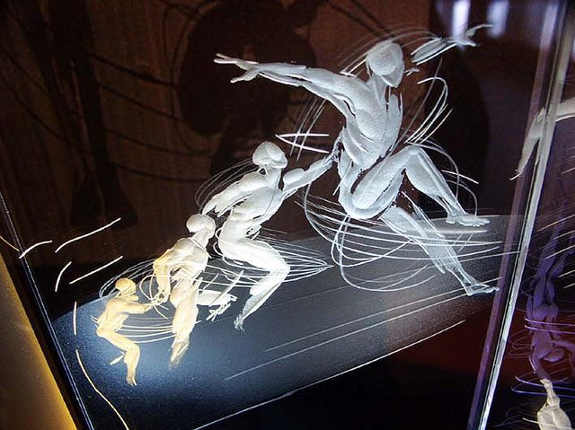 Psalmsong 4 Etched/engraved glass inside the Scottish Parliament (Artist: Alison Kinnaird 2003) Glass, light and sound installation. "Psalmsong". Next: Previous